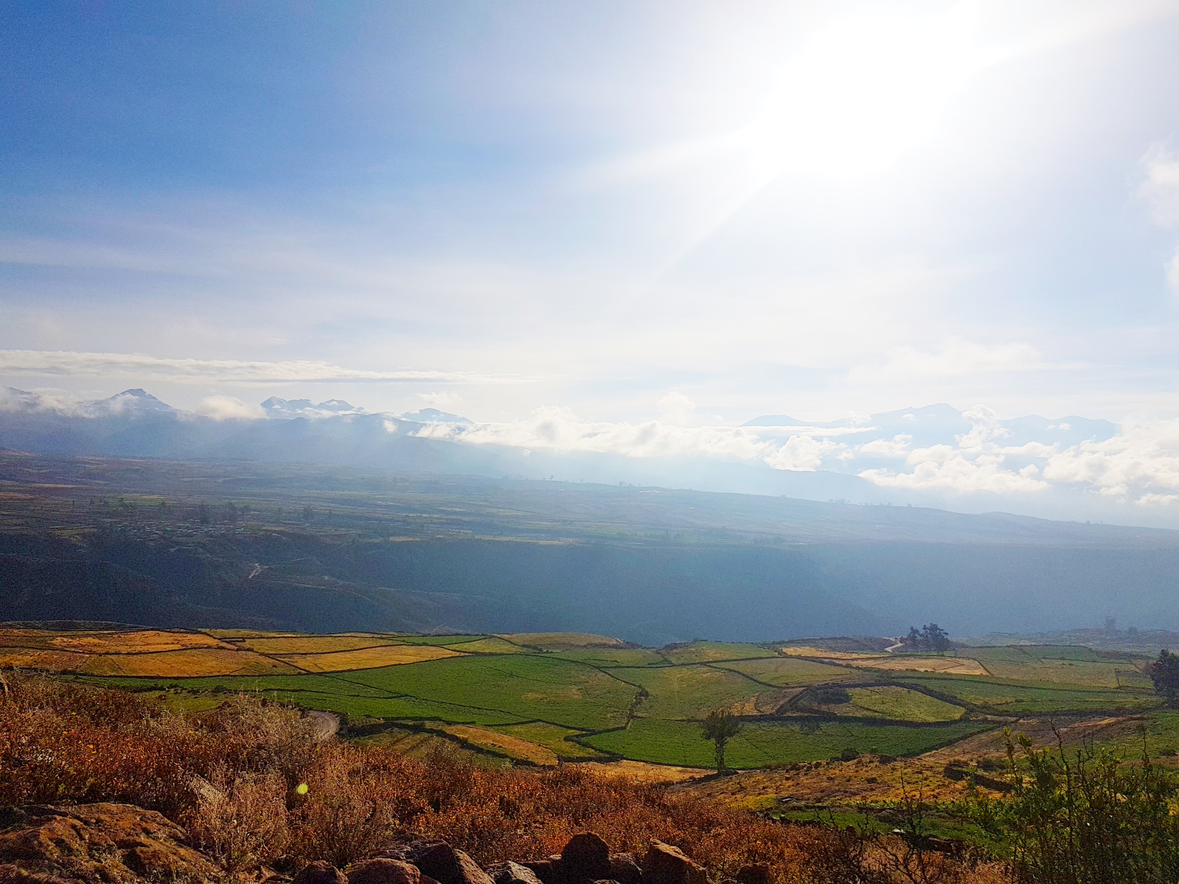 Hillsides on the outsides of the Candaraveña community